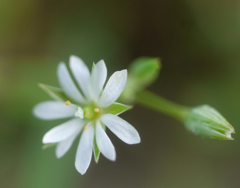 Stellaria alsine Grimm var. undulata (Thunb.) Ohwi(Caryophyllaceae)